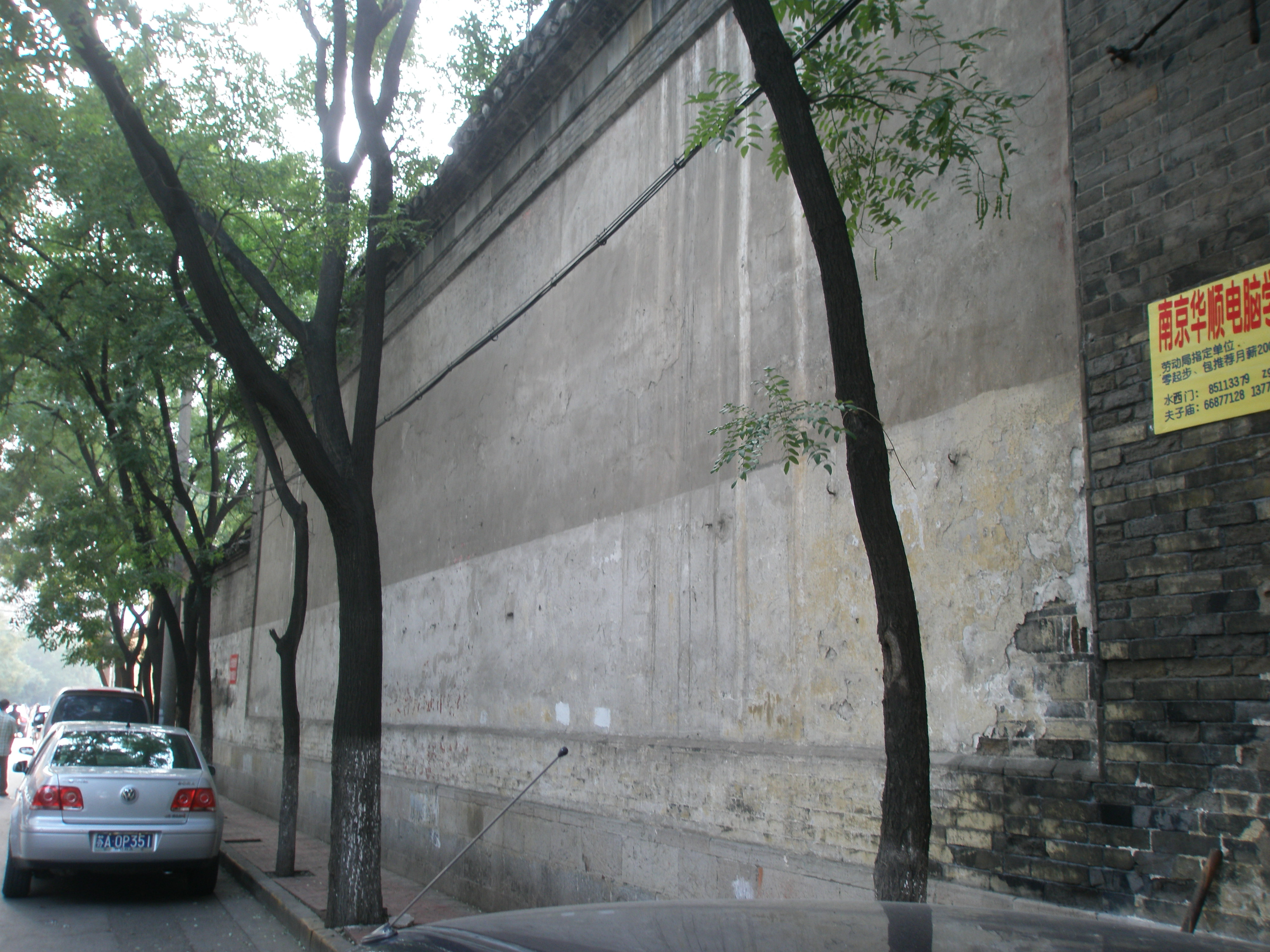 Li Hong Zhang ancestral hall enclosing wall,in nanjing,china